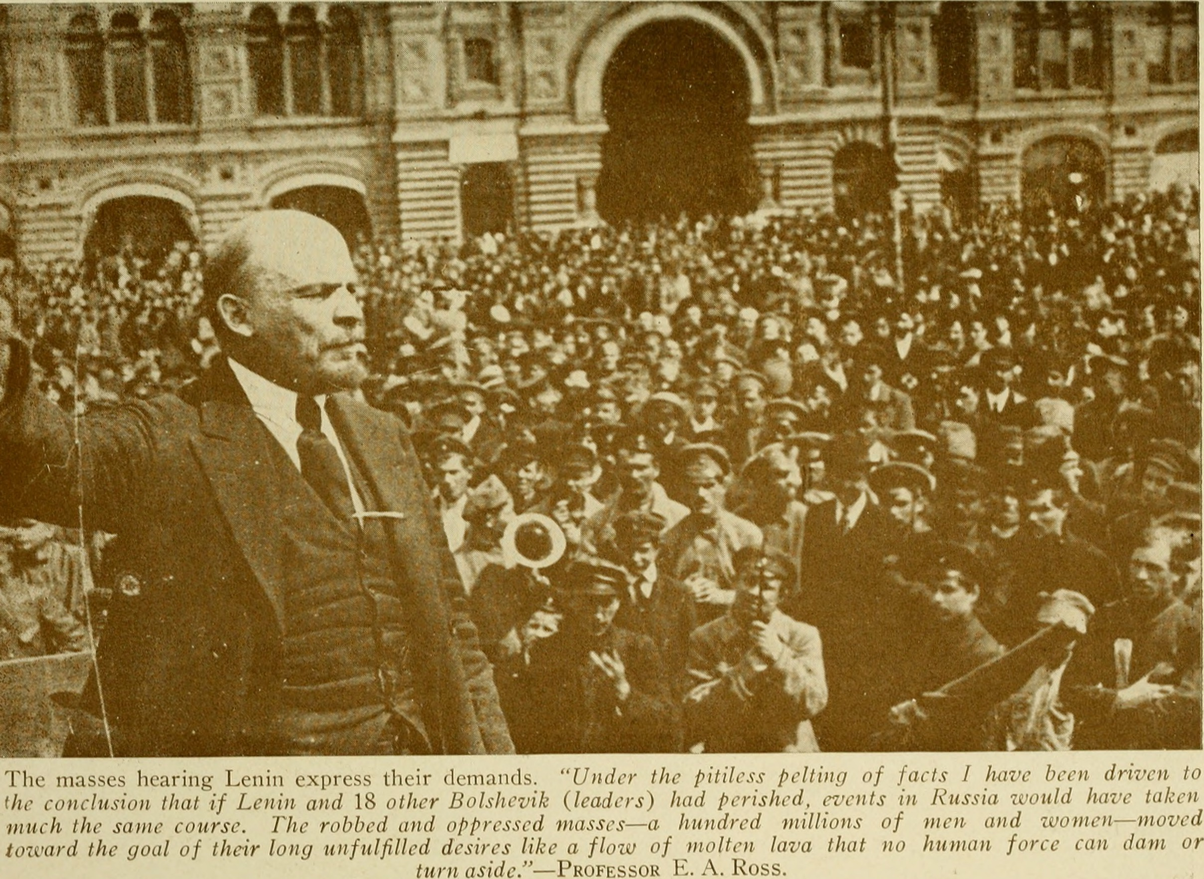 Title: Through the Russian Revolution Year: 1921 (1920s) Authors: Williams, Albert Rhys, 1883-1962 Subjects: Communism Communisme Publisher: New York, Boni and Liveright Text Appearing Before Image: ng humanity and beclouding the great daysof the birth of Russian freedom. A storm of cheers, and the Congress took up theorder of the day—the Ukraine, Education, War-Widows and Orphans, Provisioning the Front, Re-pairing the Railways, etc. This should have beenthe business of the Provisional Government. Butthat Government was flimsy and incompetent. Itsministers were orating, wrangling, scheming againstone another and entertaining diplomats. But some-body must do the hard work. By default it wasalready passing into the hands of these Soviets ofthe people. This First Congress of Soviets was domi- Enter the nated by the intelligentsia—doctors, en- Bolsheviks. gineers, journalists. They belonged to political parties known as Menshevik and Socialist-Revolutionary. At the extreme left sat 107 delegates of a decided proletarian cast—plain soldiers and workingmen. They were aggressive, united and spoke with great earnestness. They were often laughed and hooted down—always voted down. Text Appearing After Image: '